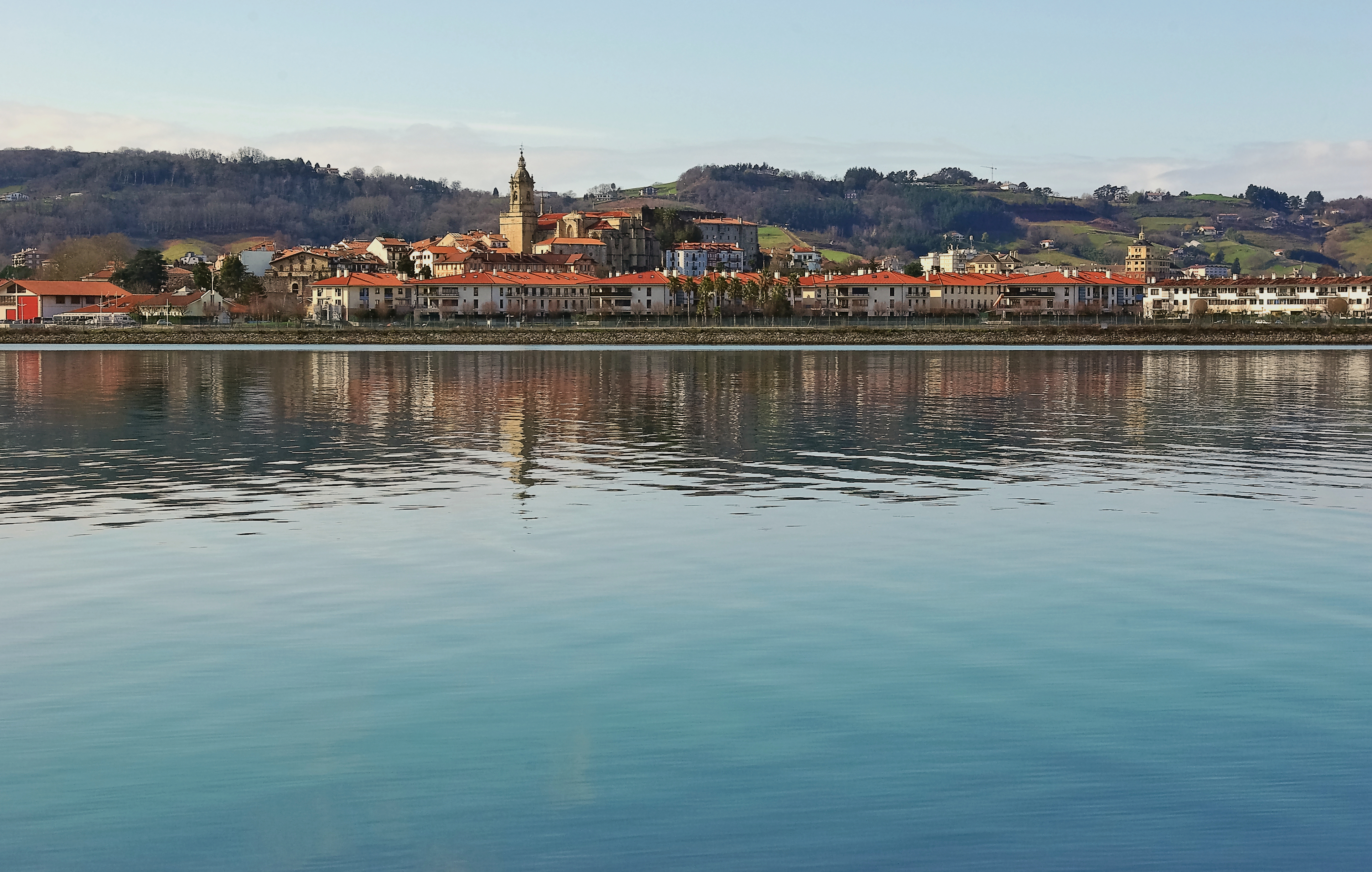 Partial view of Fontarrabie/Hondarribia (Gipuzkoa, Basque Country), over the Txingudi bay. Hendaye/Hendaia, Lapurdi, Basque Country, Pyrénées-Atlantiques, France.